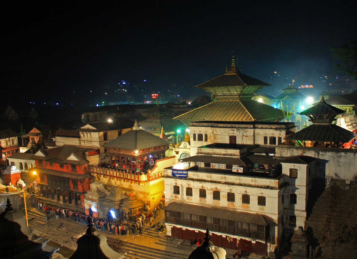 Mahashivaratri, the great night of Lord Shiva, is celebrated every year on the eve of the moonless night in the month of Falgun. Thousands of Hindu devotees are observed at Pasupatinath on this night. Activities of Sadhus and widely available Bhang on this night have been another major reason for many, specially youngsters, to visit Pasupatinath. There are several versions of beliefs related to the celebration of this auspicious night. It is believed that Lord Shiva was married to Parvati on this day and performed the ‘Tandava’. Some people believe this was the night when Lord Shiva ‘created himself’ by his divine grace and others believe that this night was the choice of Shiva as the favorite night when asked by Parvati. This photograph was published at [ Trackback